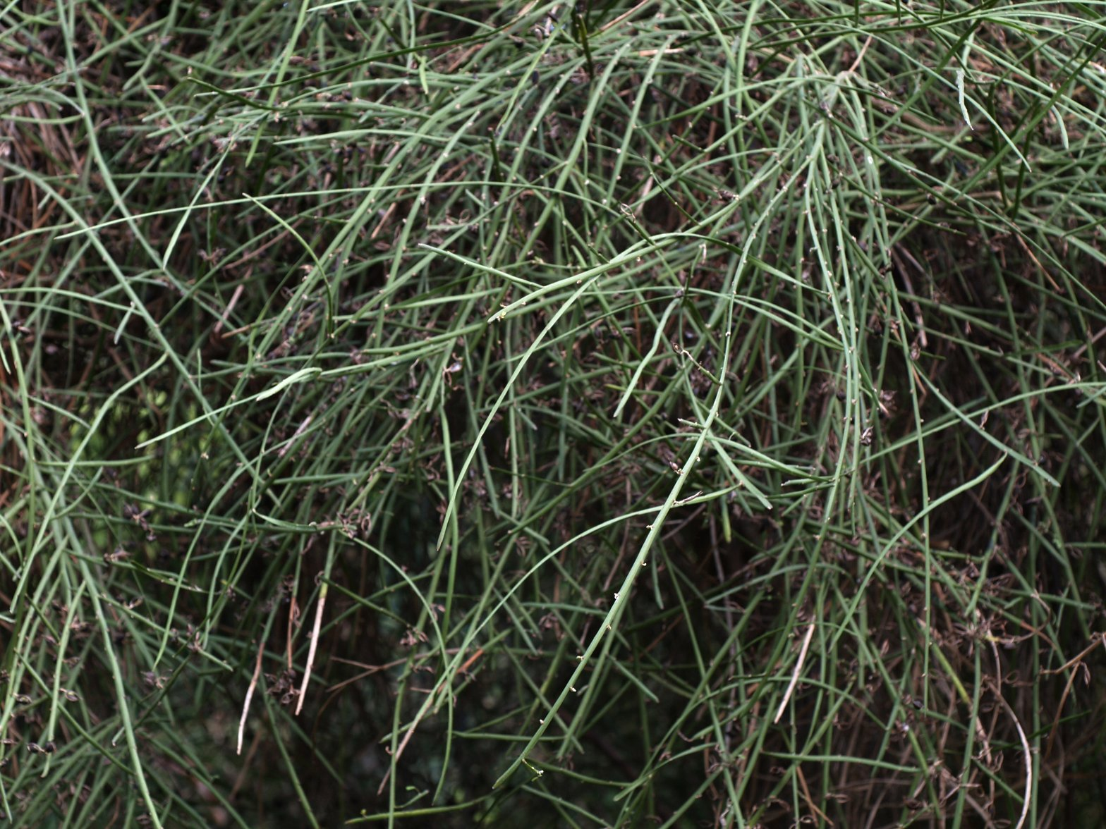 Carmichaelia arborea shrubbery in Botanical Garden (Flora) of Cologne, Germany